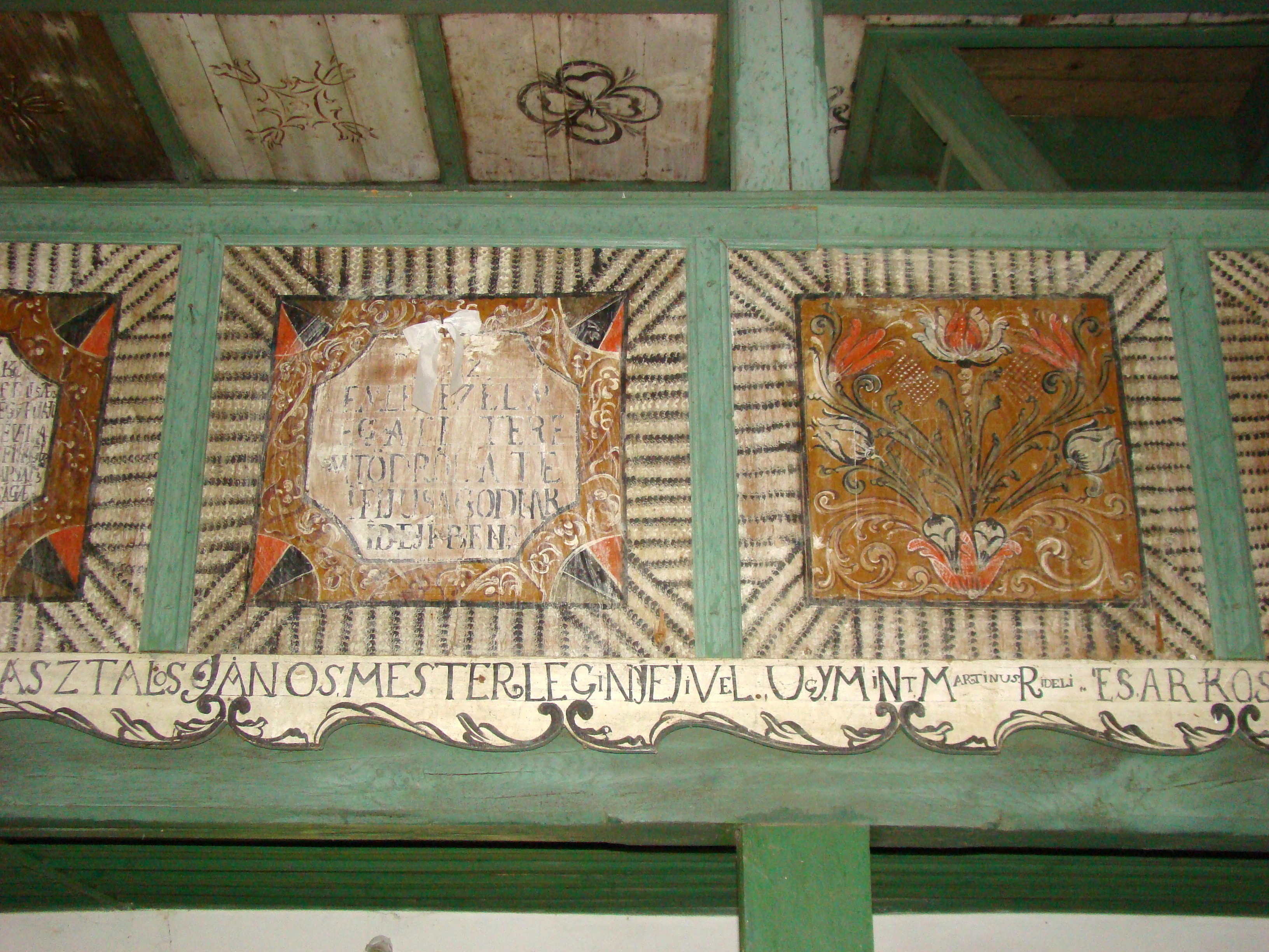 Reformed church in Băbiu, Sălaj county, Romania